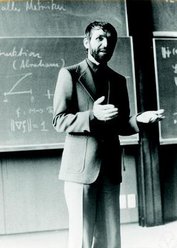 Wolfgang T. Meyer, Erlangen 1977